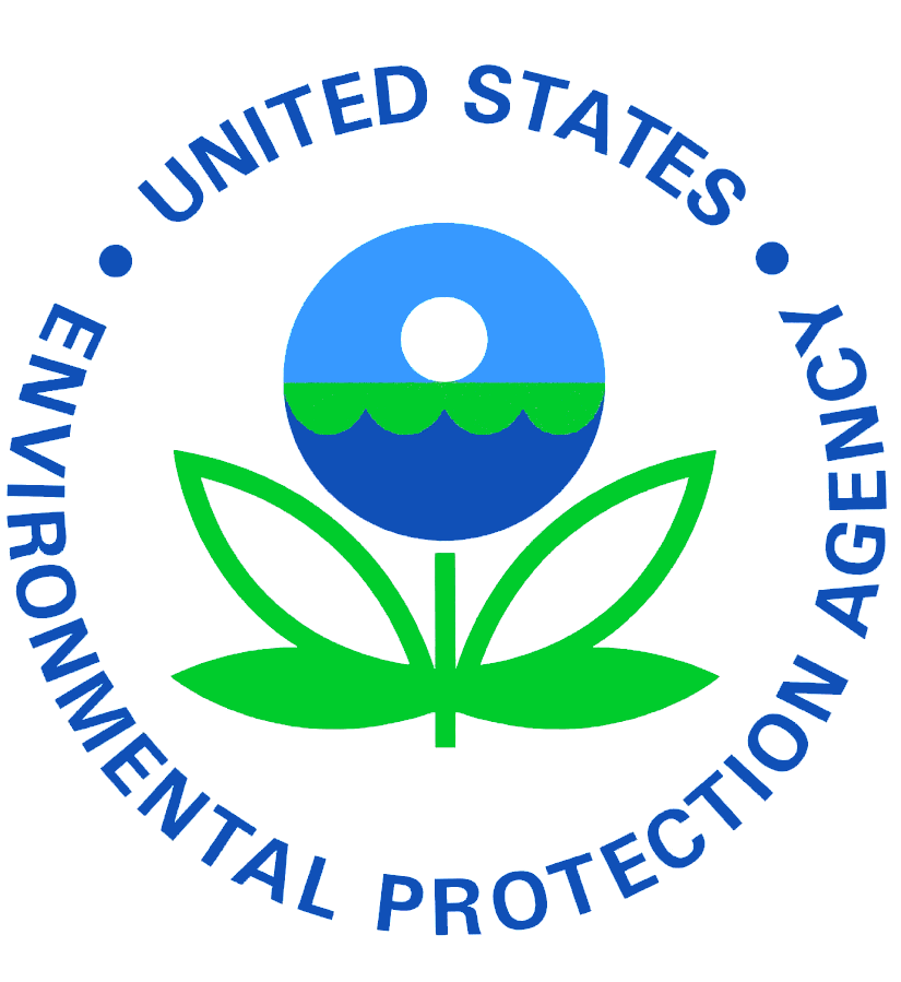 Logo of the US Environmental Protection Agency (EPA).